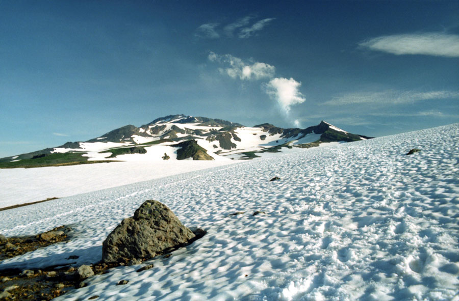 Summit of Mutnovsky volcano in Kamchatka, Russia